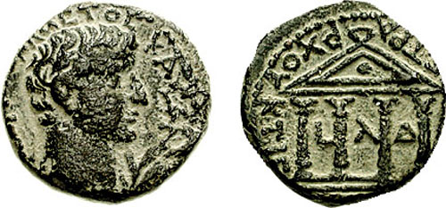 JUDAEA, Herodian Kings. Herod IV Philip, with Tiberius. 4 BCE-34 CE. Æ 17mm (5.51 gm, 12h). Paneas (Banias) mint. Dated RY 34 (30/1 CE). Bare head of Tiberius right; laurel branch to right / Tetrastyle temple (Augusteum) with pellet in pediment; date between columns. Meshorer 106; RPC I 4948; Hendin 538. Good VF, desert patina. Nice example of these usually poorly struck coins.